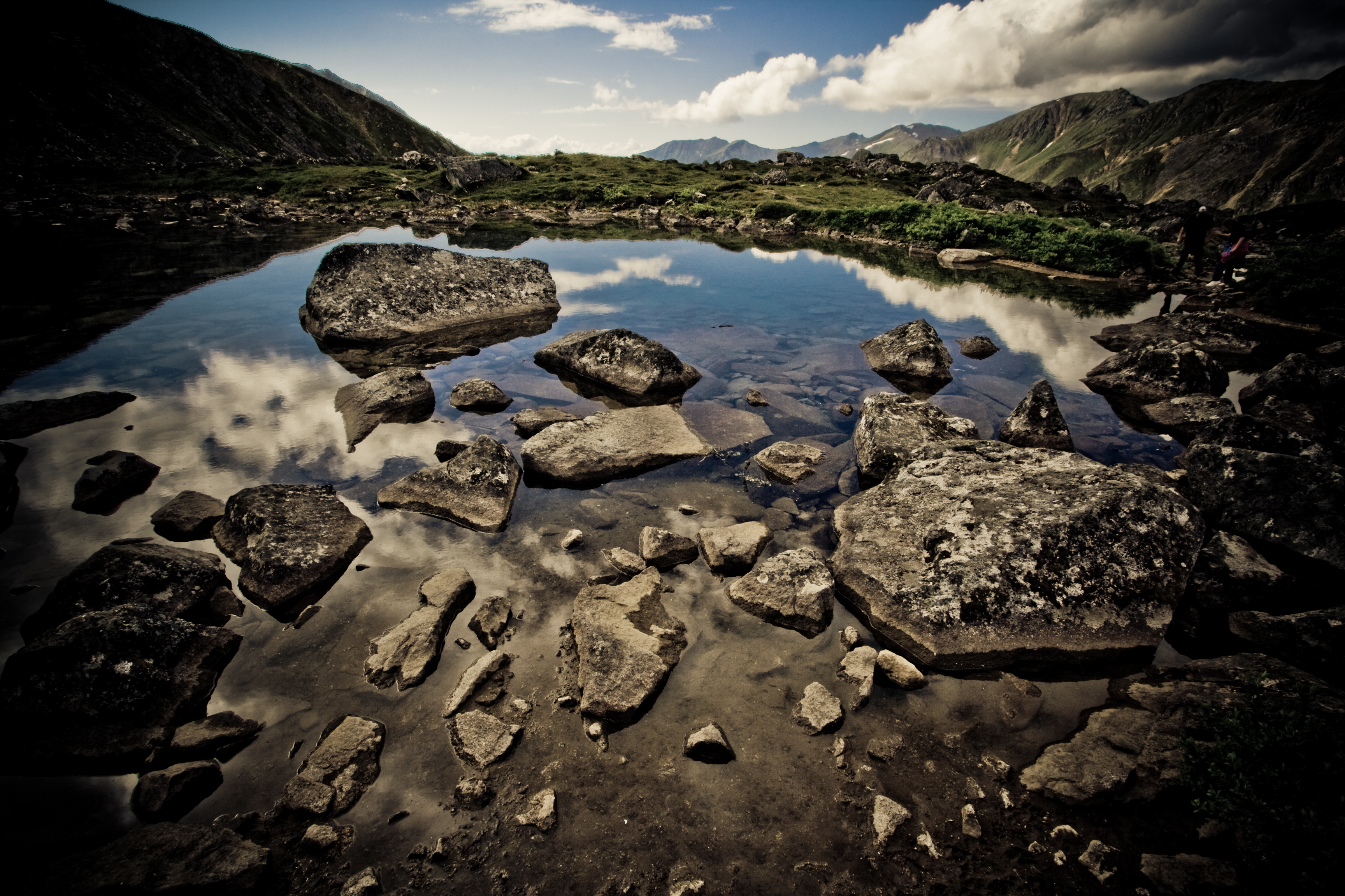 A pond at Hatcher Pass, Alaska.